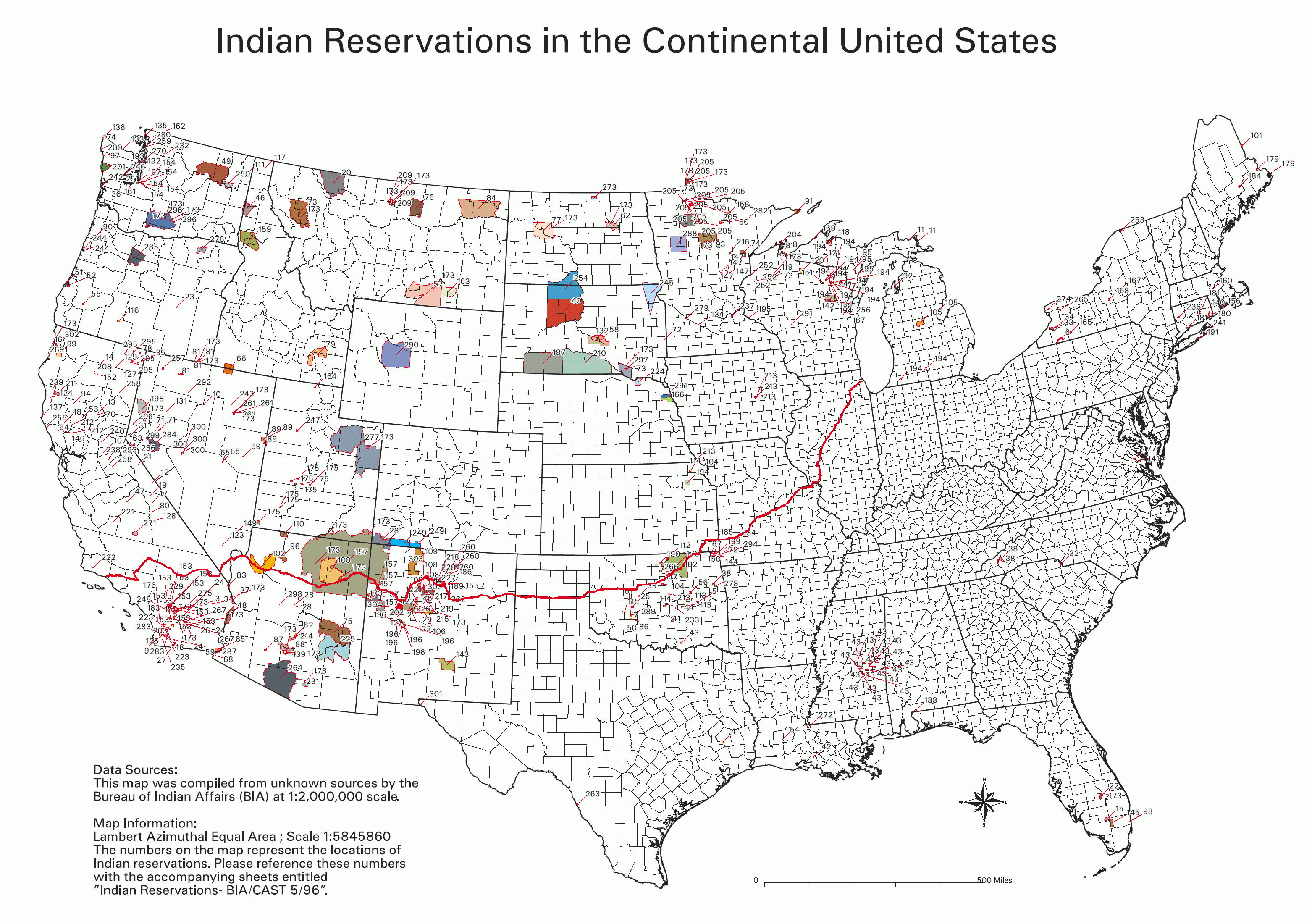 Map of Indian Reservations in the United States, with Route 66 indicated as a red line. Legend (for the numbers) can be found here.